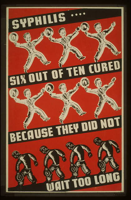 Depression-era poster urging syphilis treatment